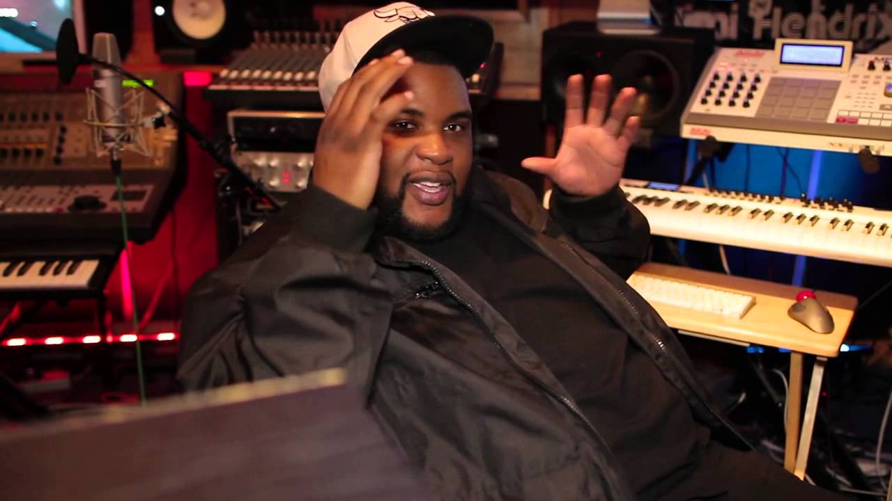 Carlton Mays Jr., better known by his stage name Honorable C.N.O.T.E, is an American record producer. C.N.O.T.E's first placement credit production work was in 2008 on Rap Artist's FloRida's Debut Album "Mail On Sunday". Born: April 8, 1981 (age 32), Benton Harbor, MI Height: 6' 0"